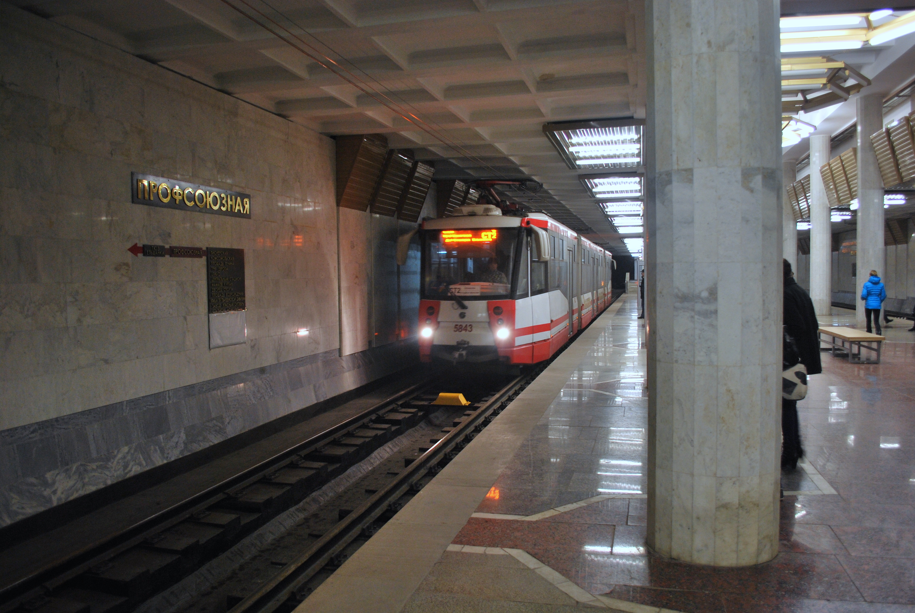 Profsoyuznaya (volgograd metrotram station).